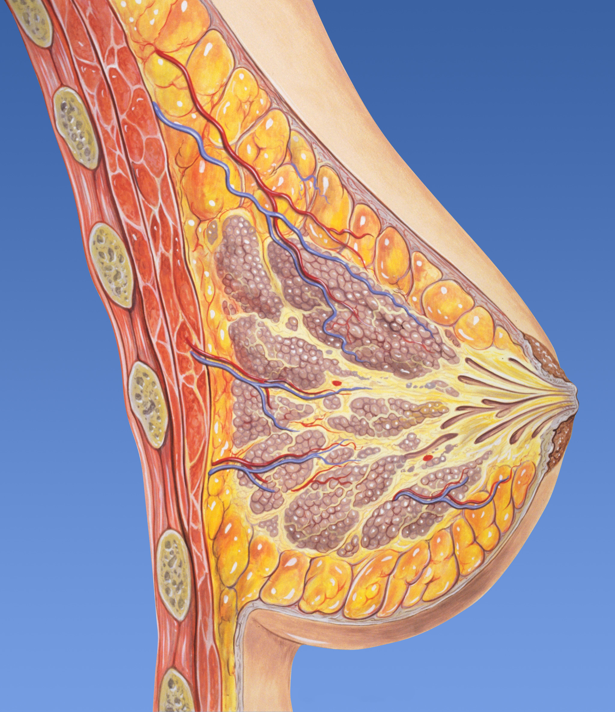 Breast normal anatomy cross-section view now thought to be incorrect[1]